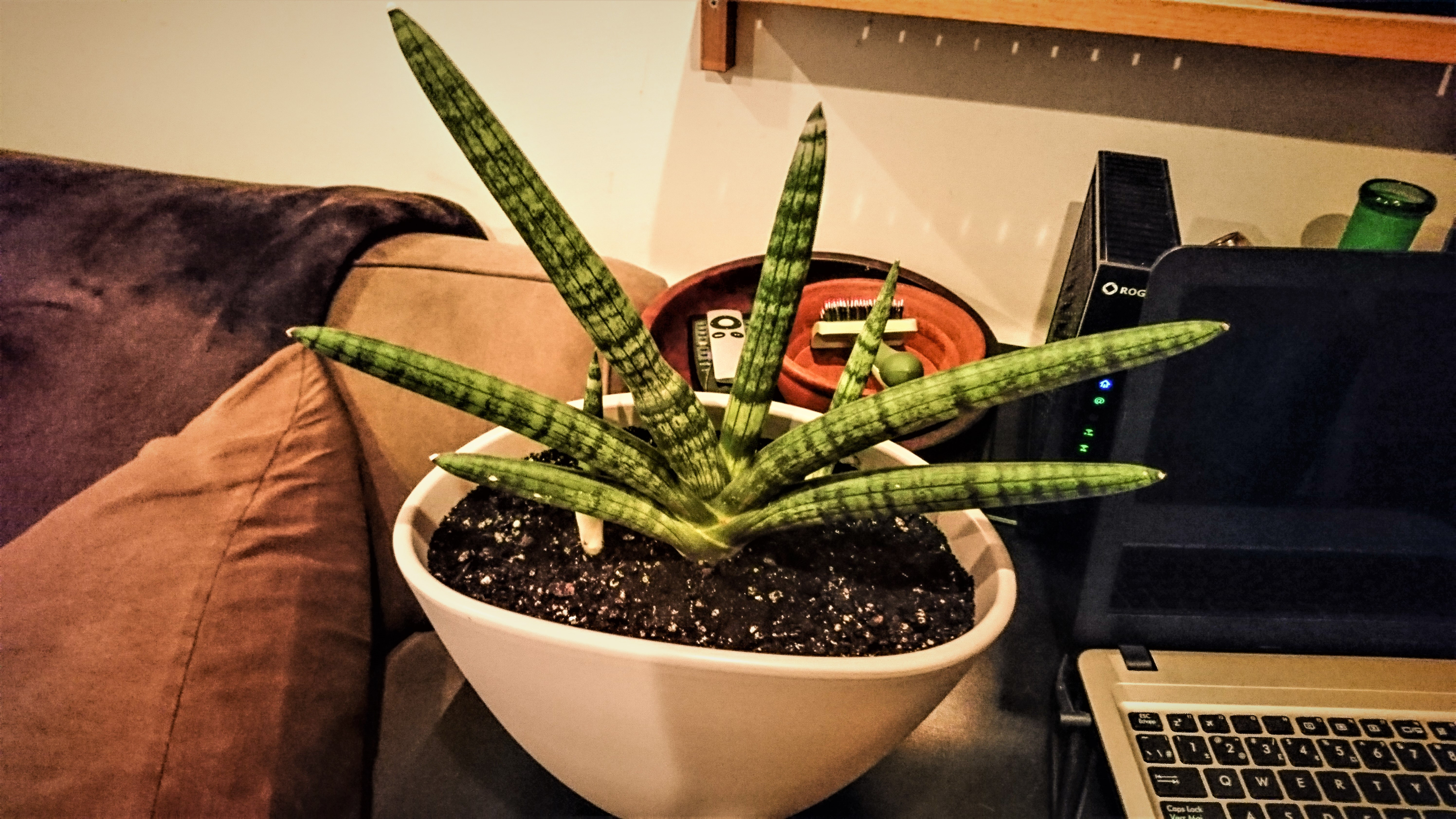 Sansevieria cylindrica var. patula 'Boncel'. Also known as "Starfish Sansevieria".